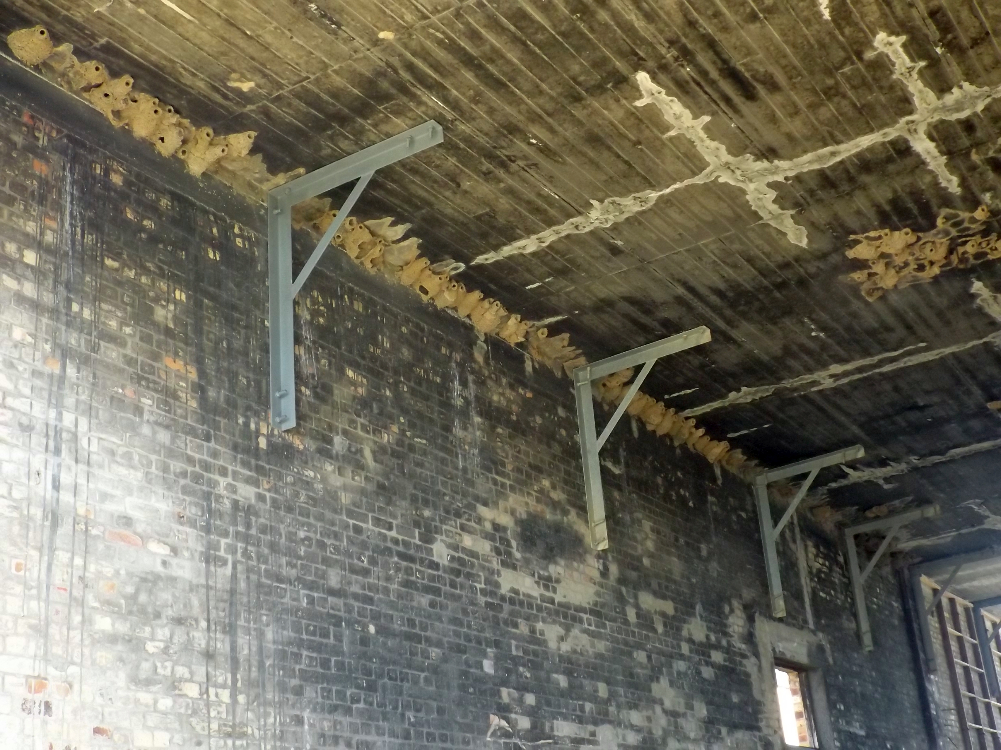 Photo of the enclosed stand's internal roof at the Allison Engine Testing Stands site at Eagle Farm, Brisbane, Queensland, Australia.